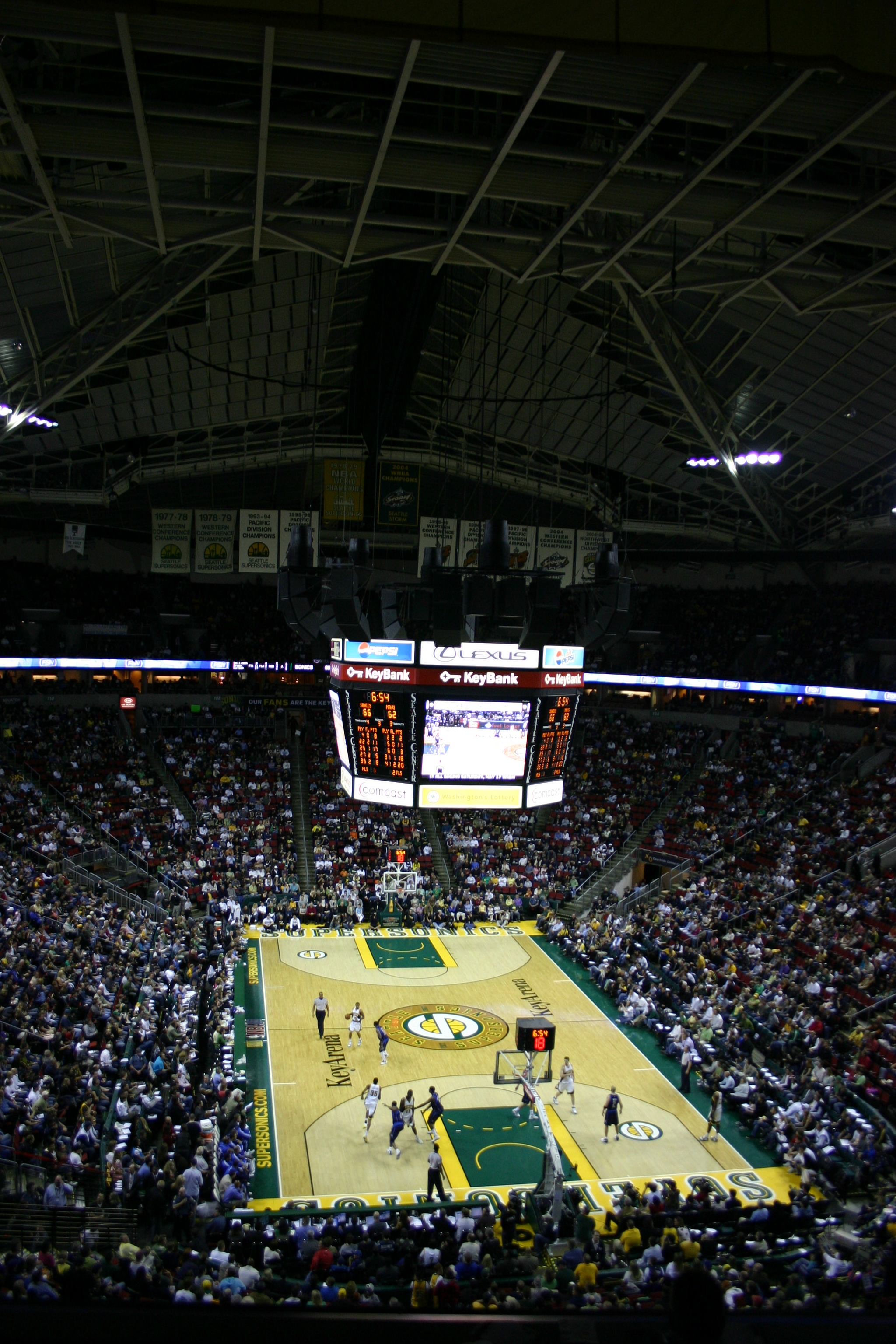 Picture of the interior of the KeyArena during the Seattle Supersonics last home game in 2008 against the Dallas Mavericks